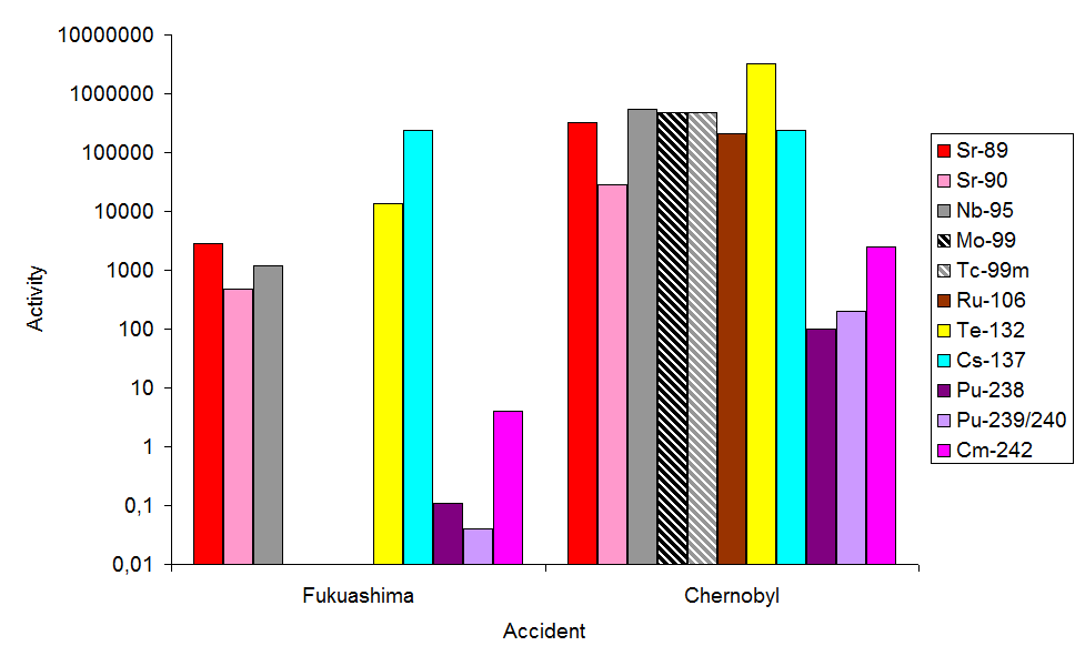 A bar graph of the levels of different radioisotopes in soil 500 meters from the damaged reactors at Fukuashima compared with the release at Chernboyl (OECD report). I used the data from TEPCO which they ontained from the Japan Chemical Anaylsis Centre, the original samples from Japan were soil from the playground